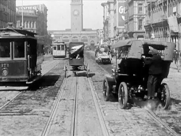 Screenshot from the 1906 film A Trip Down Market Street, shot in San Francisco shortly before the severe earthquake and subsequent devastating fire.